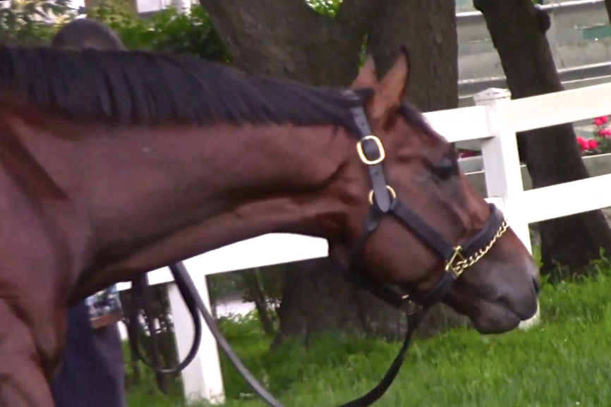 Tonalist, winner of the 2014 Belmont Stakes, after the race